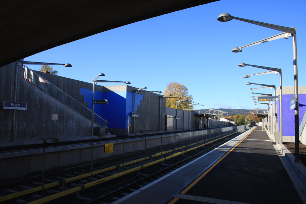 Hauger Metrostation. Seen from track 2. Faced towards Kolsås.